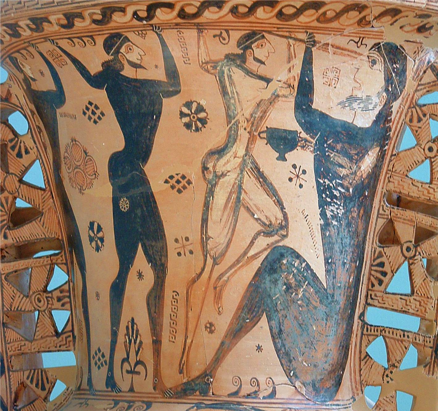 Eleusis Amphora: funerary proto-Attic amphora. Detail of the neck: Odysseus and his men blinding the cyclops Polyphemus.